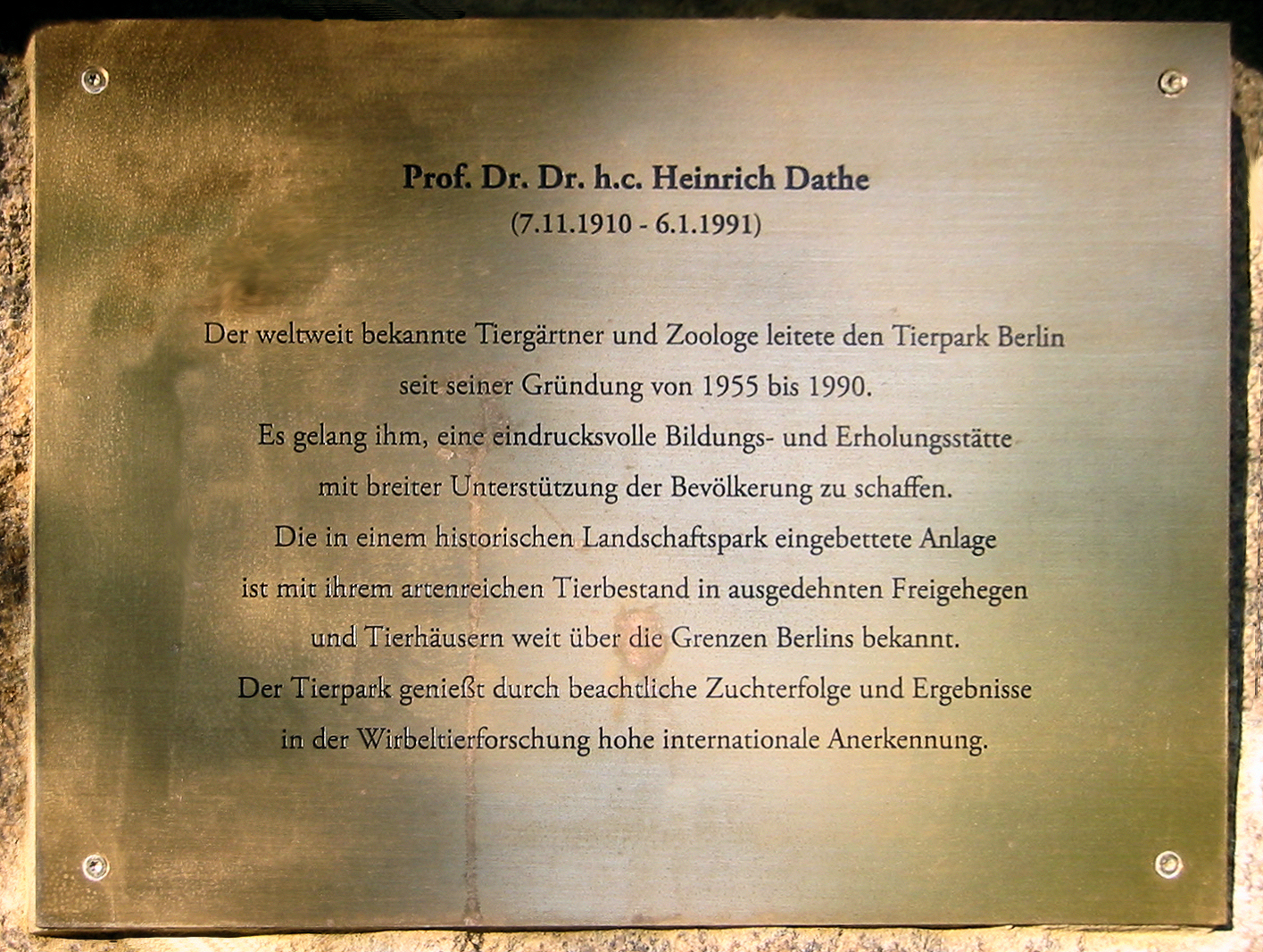 Memorial plaque, Heinrich Dathe, Am Tierpark 125, Berlin-Friedrichsfelde, Germany